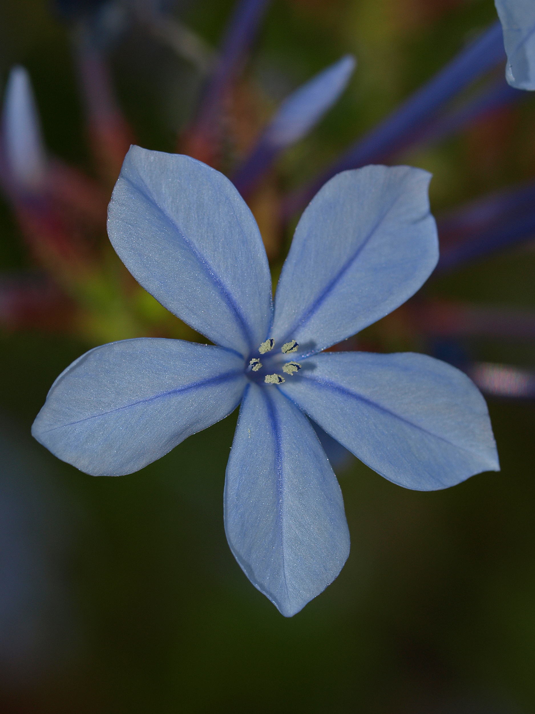 Plumbago auriculata